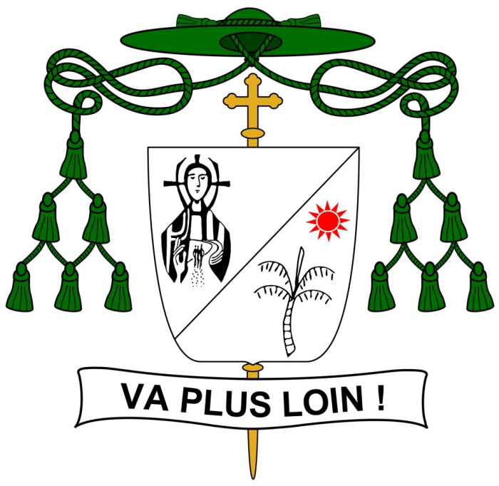 bp Charles Mahuza Yava SDS - coat of arms bp Charles Mahuza Yava SDS - herb